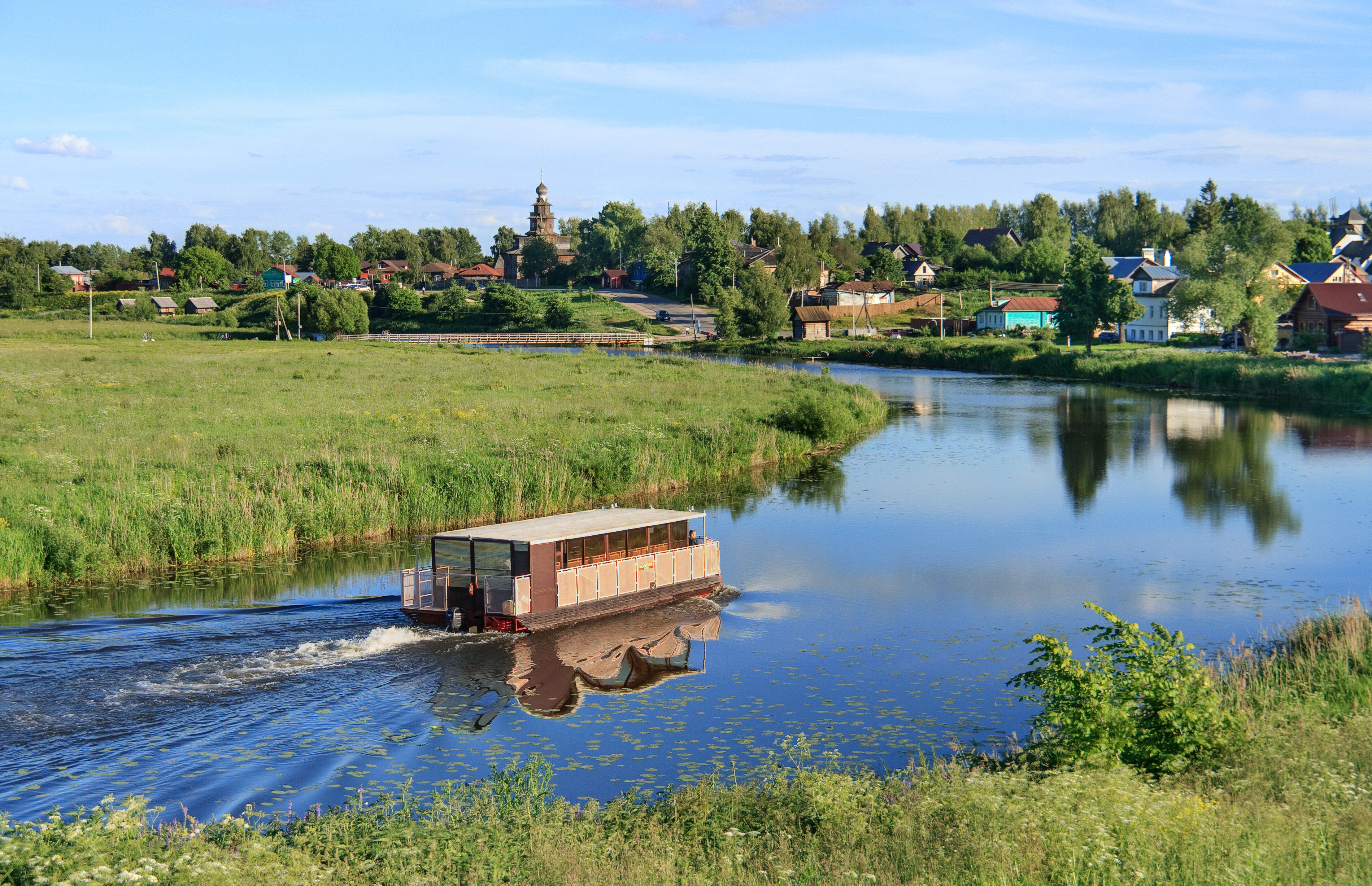 Water taxi in Suzdal